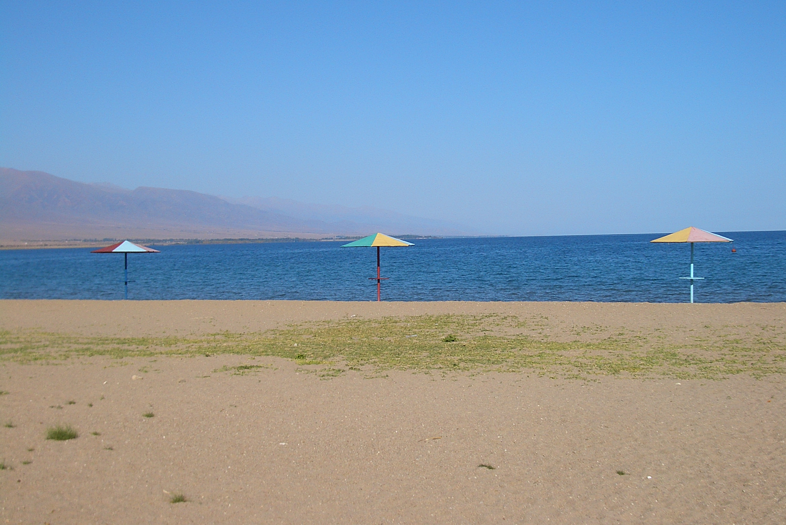 Beach on Lake Issyk Kul, with metal beach umbrellas at a Soviet-era resort at Koshkol, Kyrgyzstan. Looking roughly east, with the Tamchy Bay in the background. The picture was taken in mid-Septmeber, after the tourists are mostly gone.